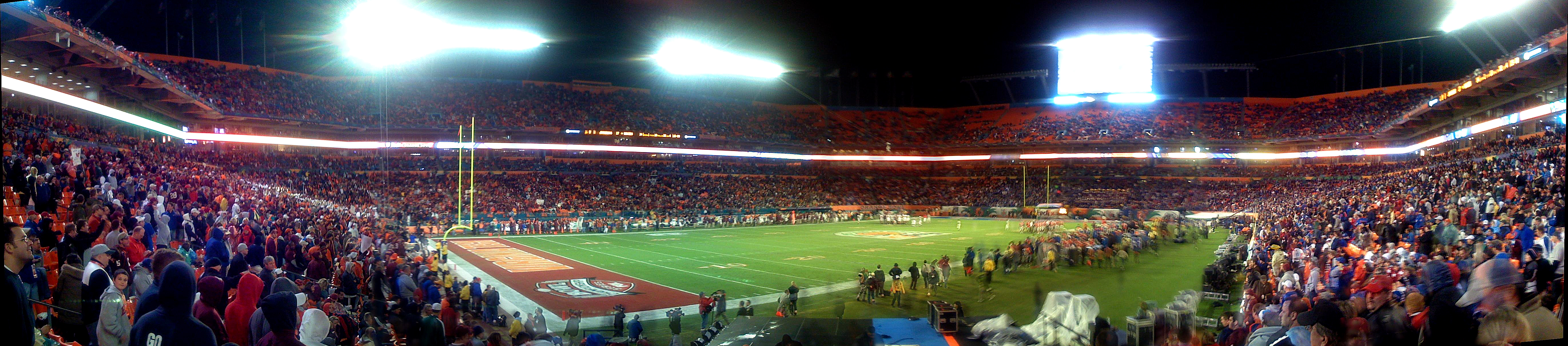 Panorama of the 2008 Orange Bowl.